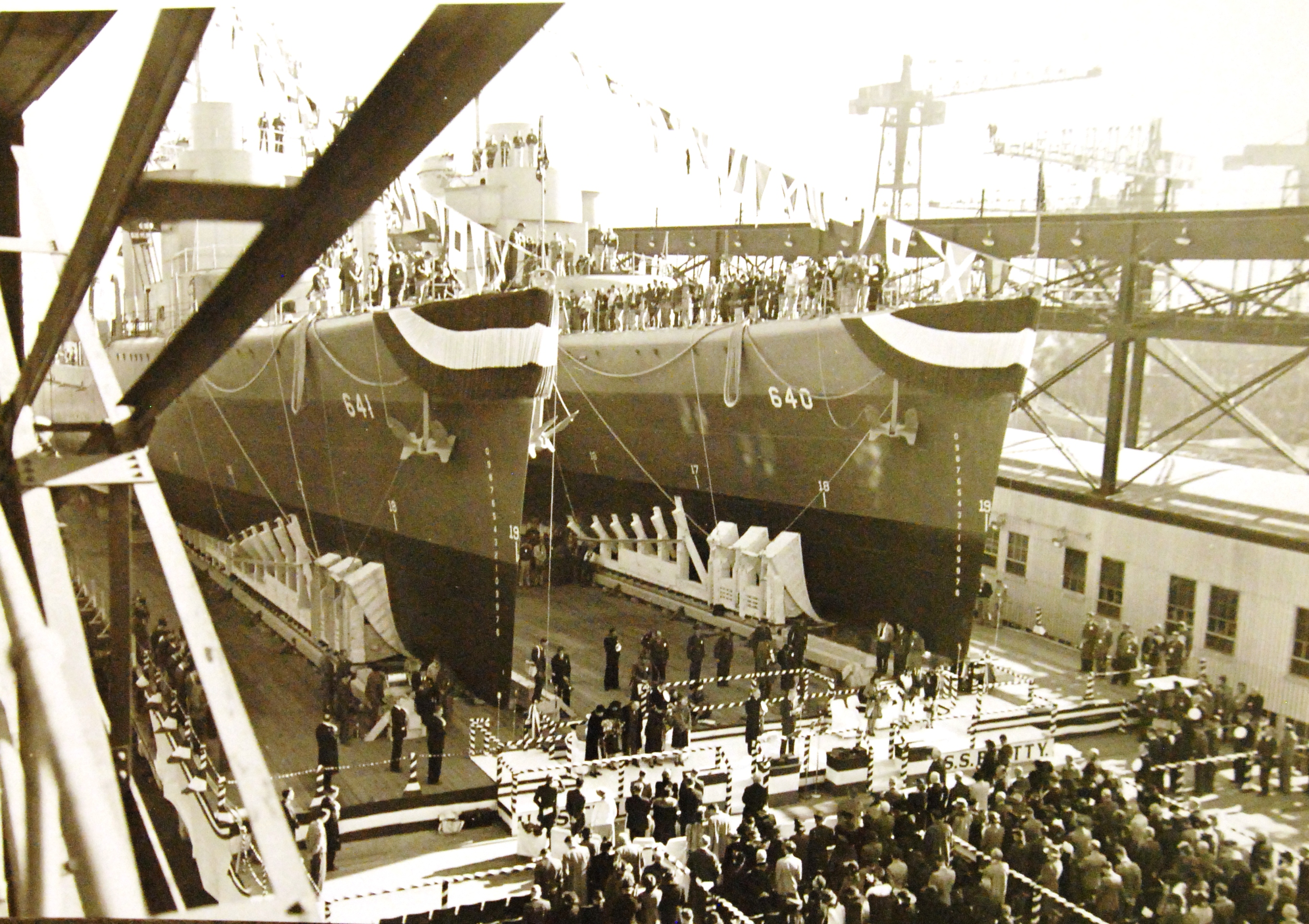 Lot 5399-4: Charleston Naval Shipyard, Charleston, South Carolina, December 20, 1941. Dual launching of USS Tillman (DD 641) and USS Beatty (DD 640). Two ships just before launching. Tillman served in the Atlantic and Mediterranean during World War II and was decommissioned in 1947, scrapped in 1972. Beatty also served in the Atlantic and Mediterranean but was sunk by German aircraft on November 6, 1943. Secretary of the Navy Josephus Daniels Collection. (7/2/2015).